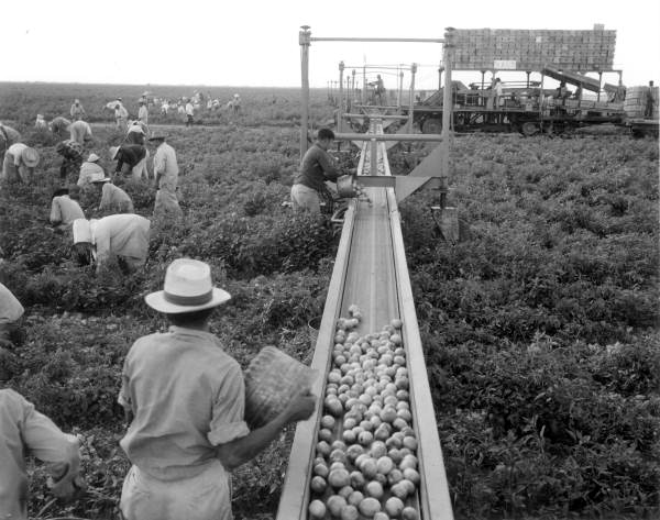 Workers using a conveyor belt for tomato harvesting — in Princeton, Miami-Dade County, Florida.